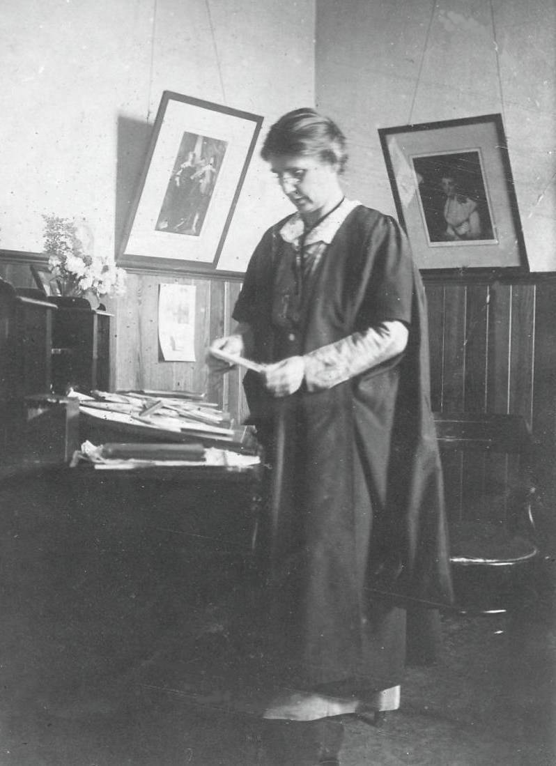 Lucy Gwynn in her office as Women's Registrar at Trinity College, Dublin